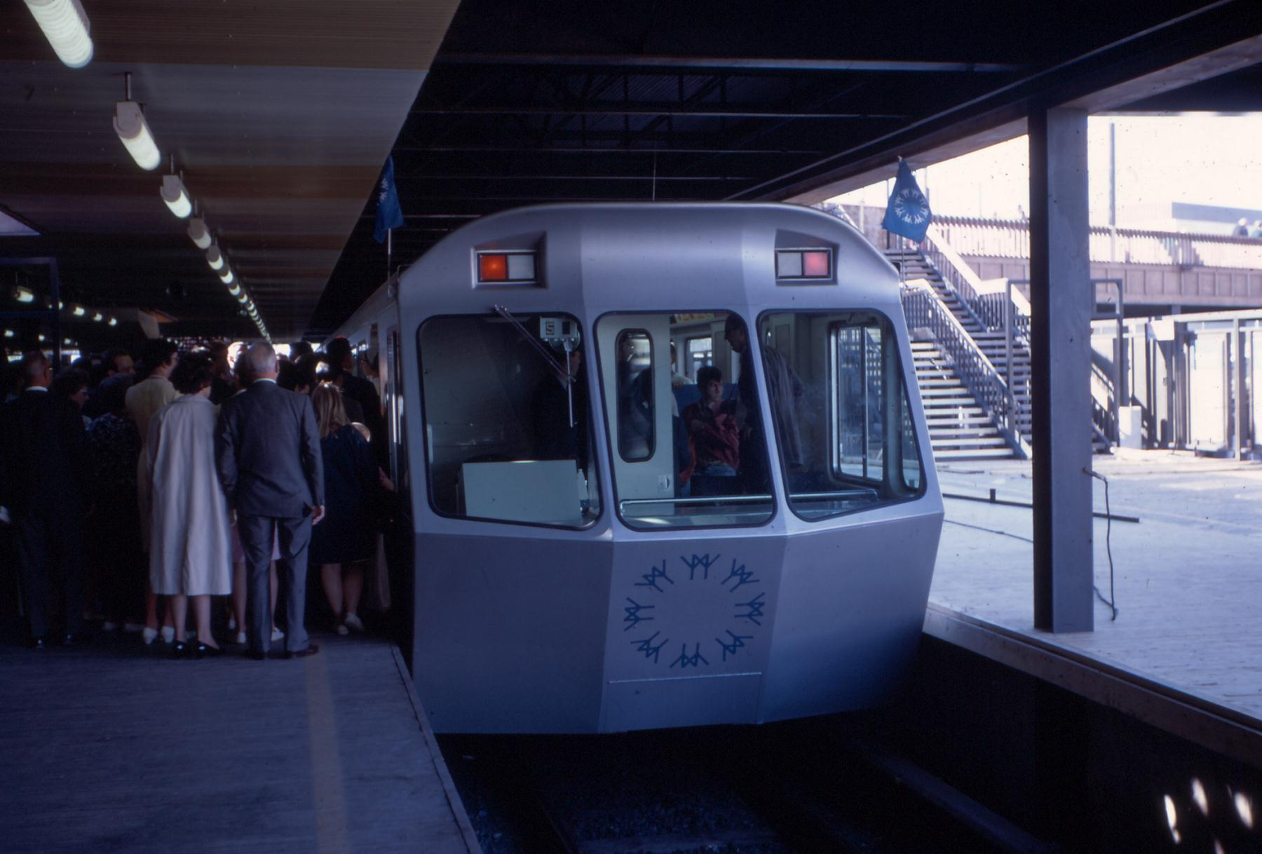 Front view of Expo Express train at Place d' Accueil terminal.